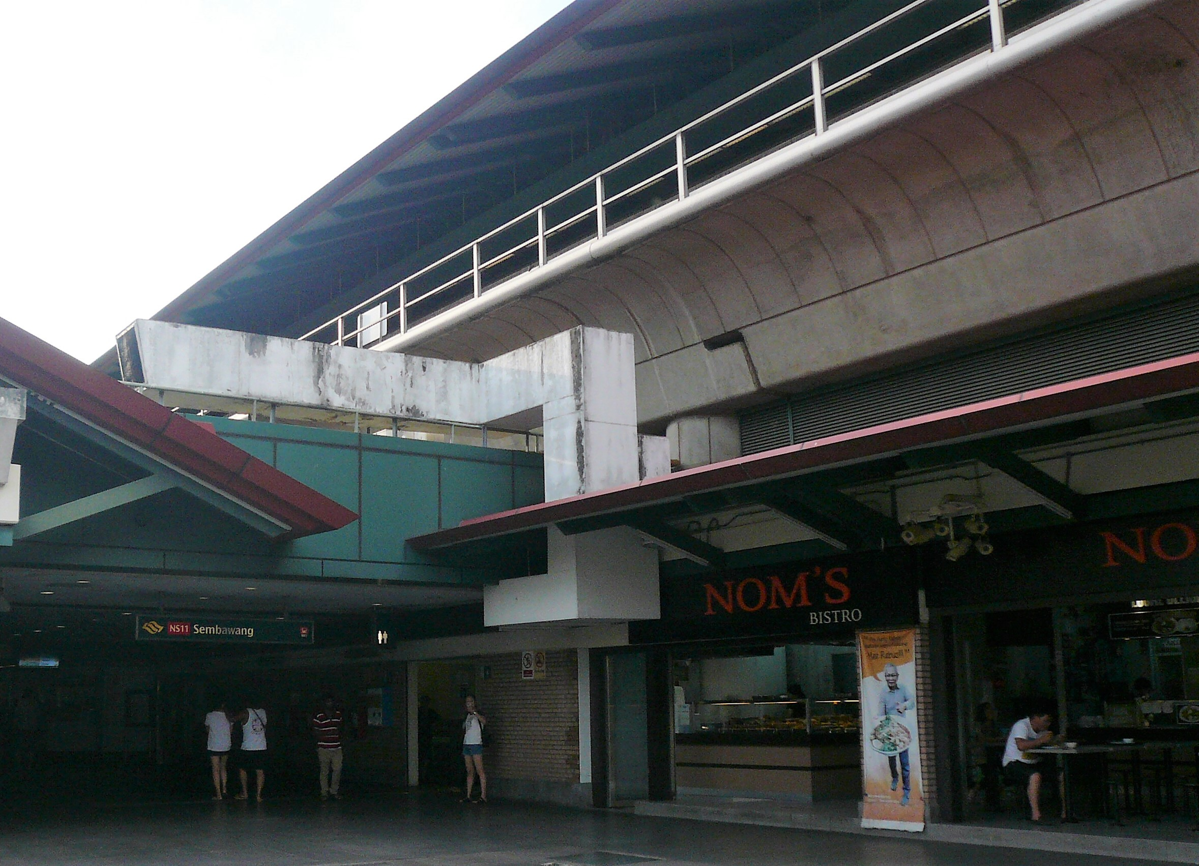 Exit D of Sembawang MRT